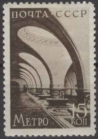 Stamp of the Soviet Union, Sokol (Moscow Metro station), 1938, CPA #635.